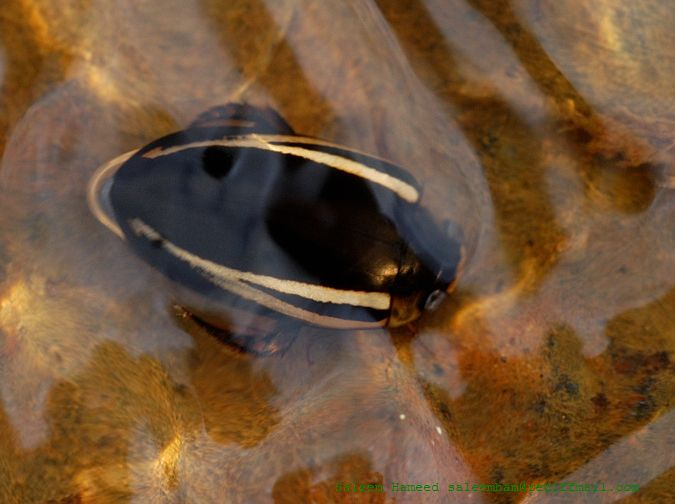 Diving beetle, Bannerghatta, India